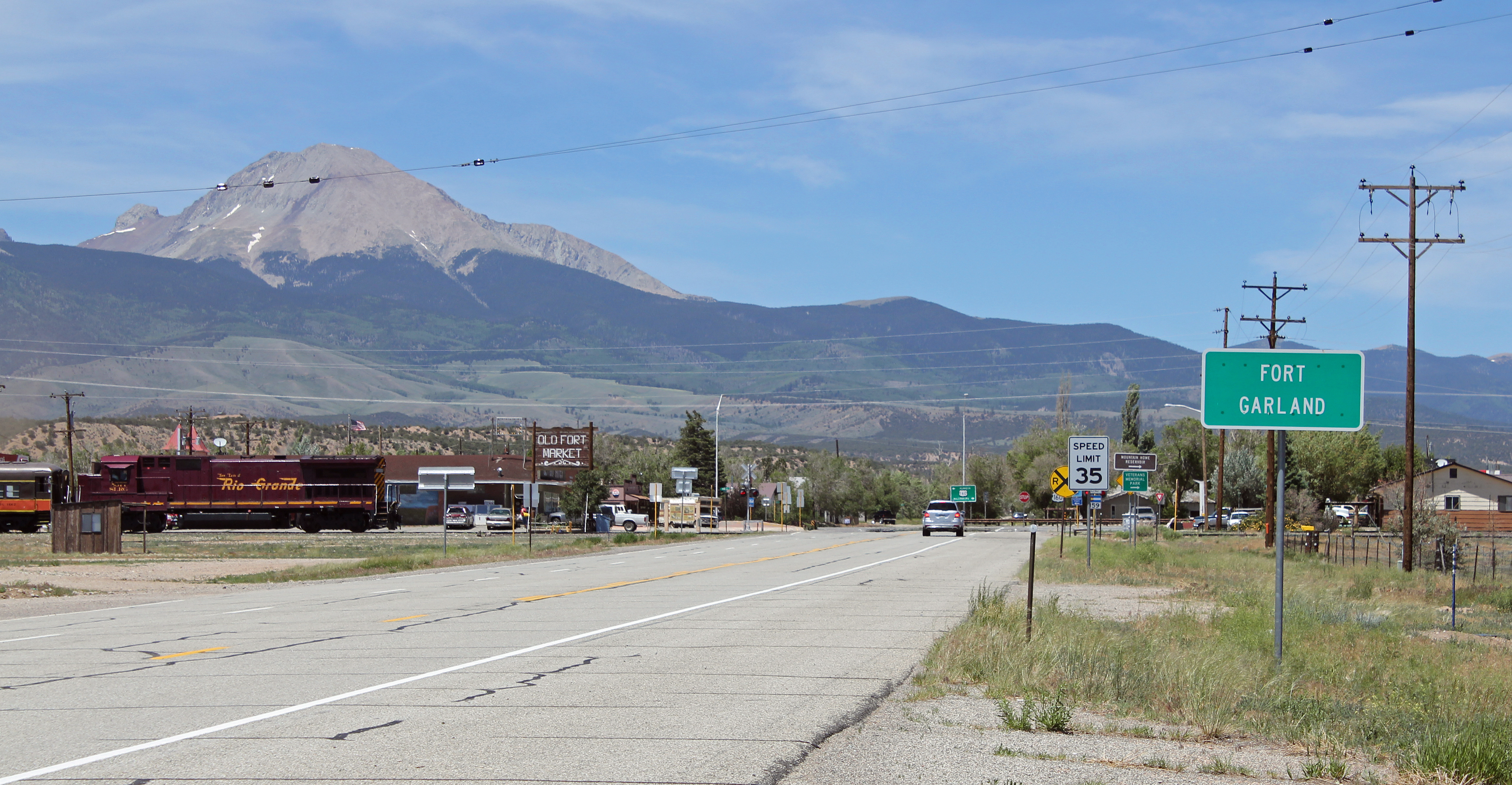 Fort Garland, Conejos County, Colorado. The mountain in the background is Mount Lindsey.